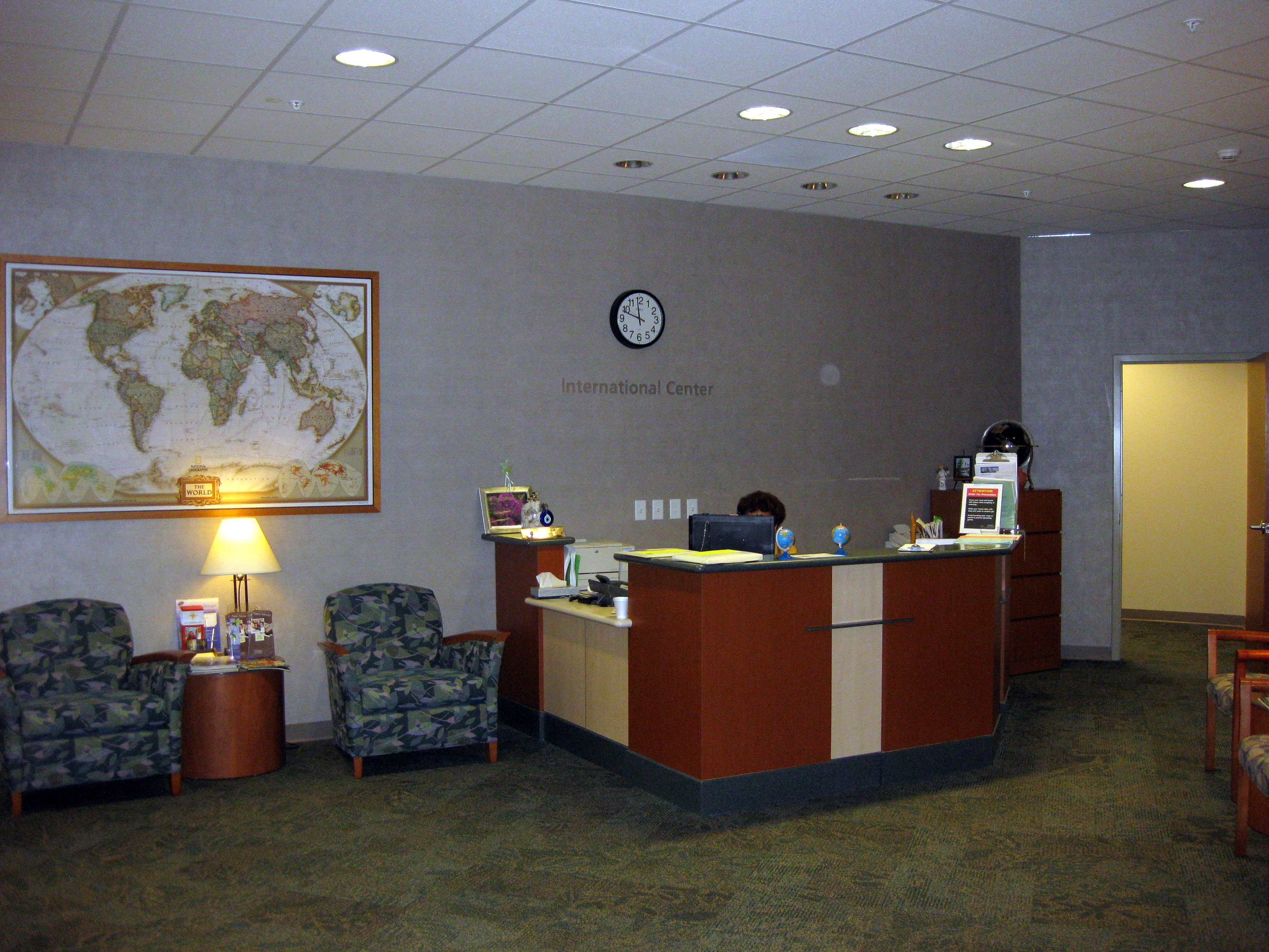 MD Anderson Cancer Center - International Center